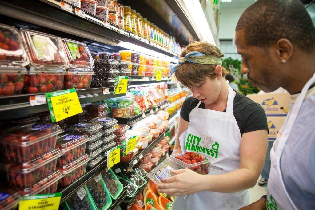 A nutrition education volunteer at City Harvest teaches how to select healthy groceries while sticking to a budget.